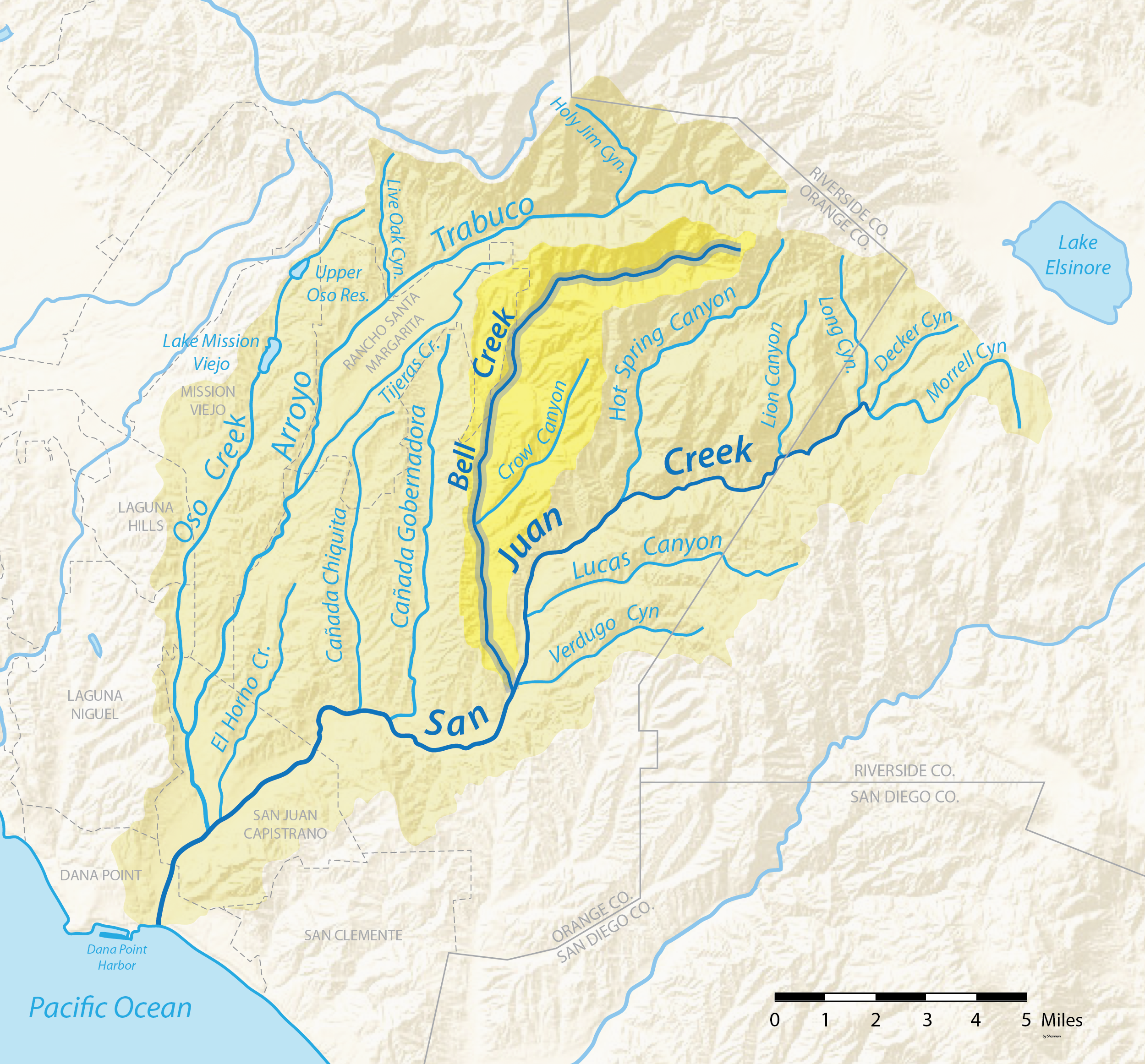 Map of the Bell Canyon watershed, a tributary of San Juan Creek in Orange County, California. Made using USGS National Map data.